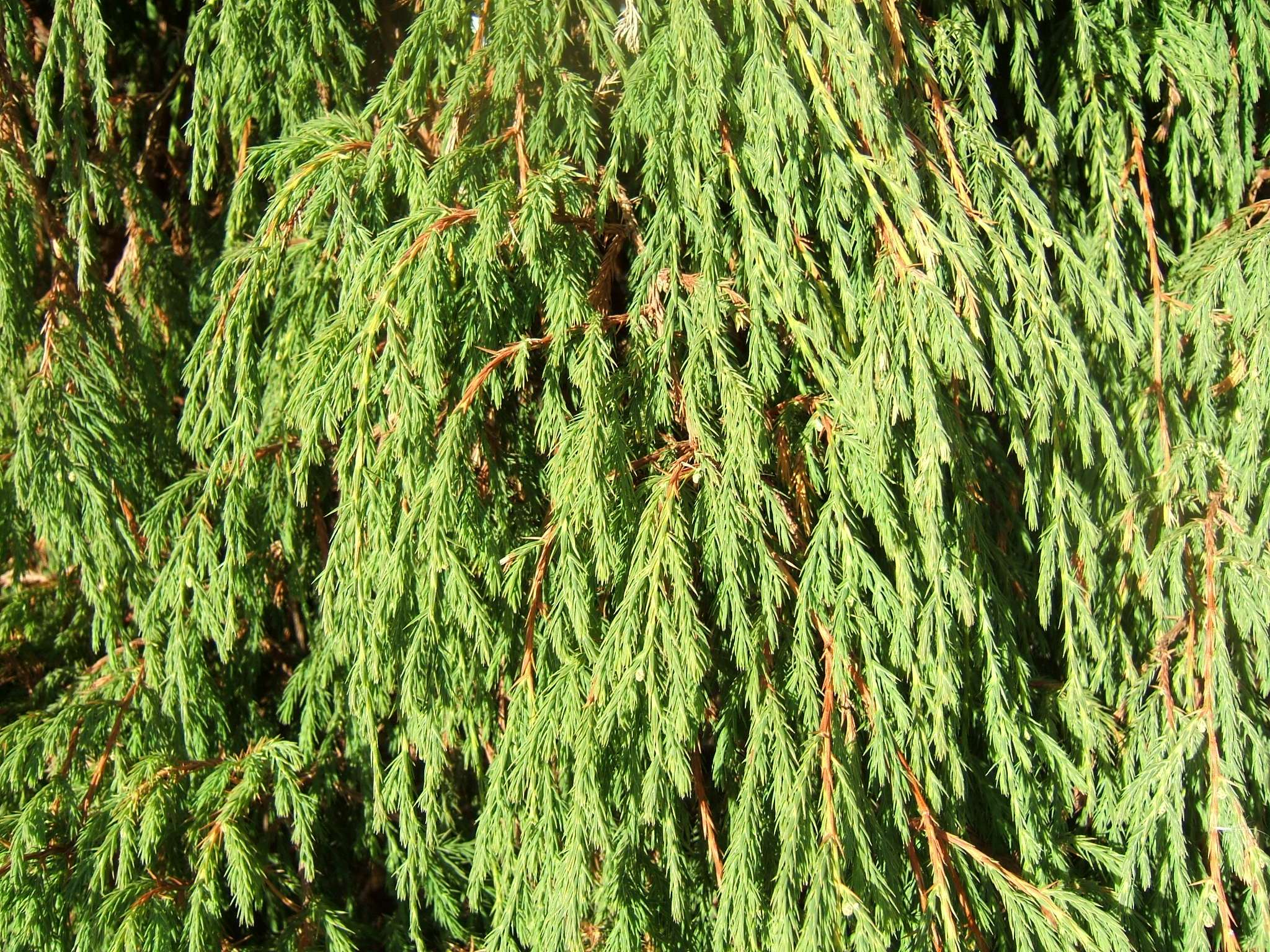 Juniperus recurva cultivated in Britain